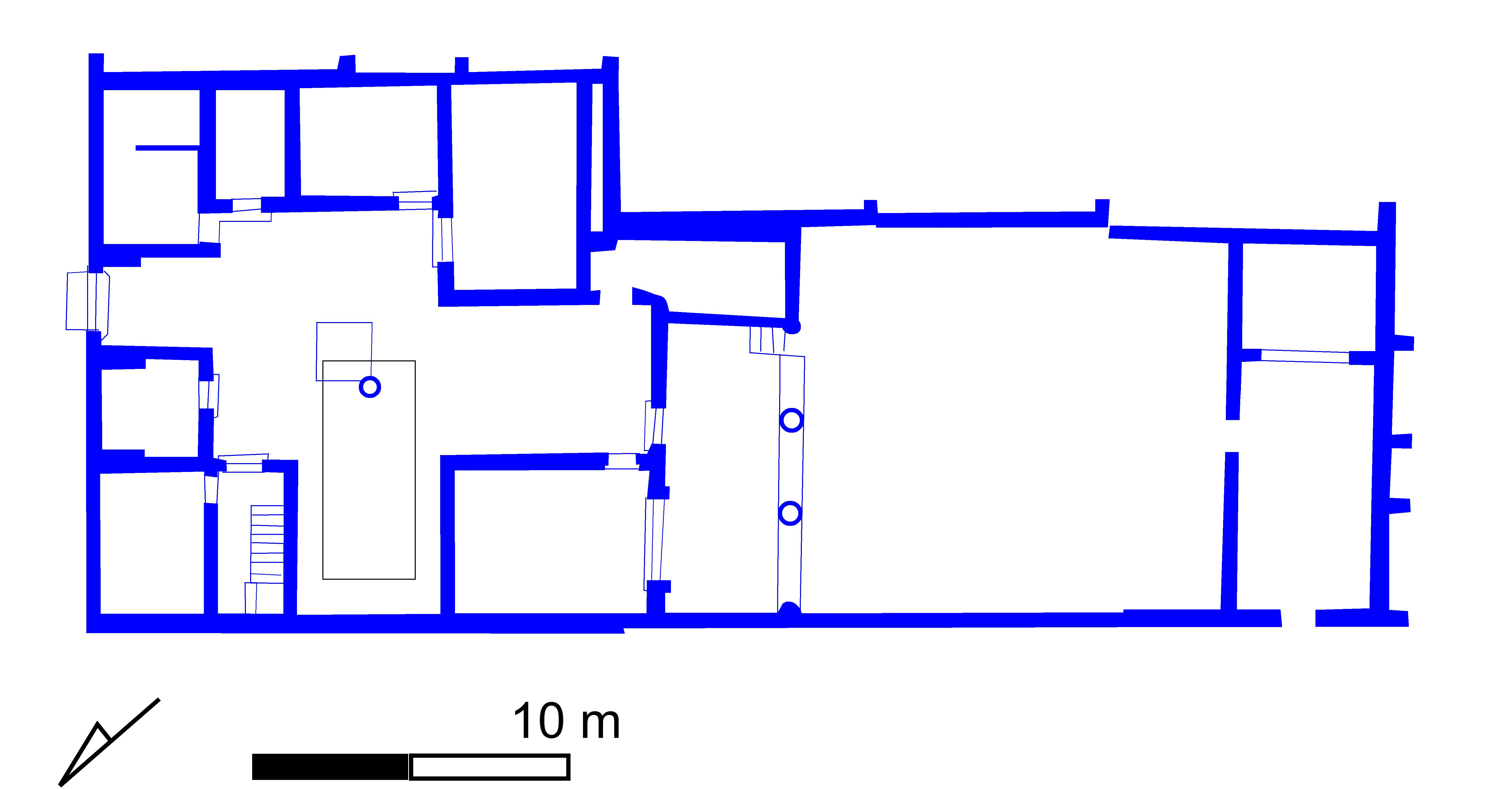 Cosa, House of the Skeleton, redrawn from Bruno. Scott, Cosa IV, The Houses, 1993, fig. 32 on p. 108